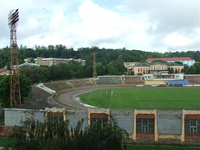 SKA Stadium in Lviv, Ukraine